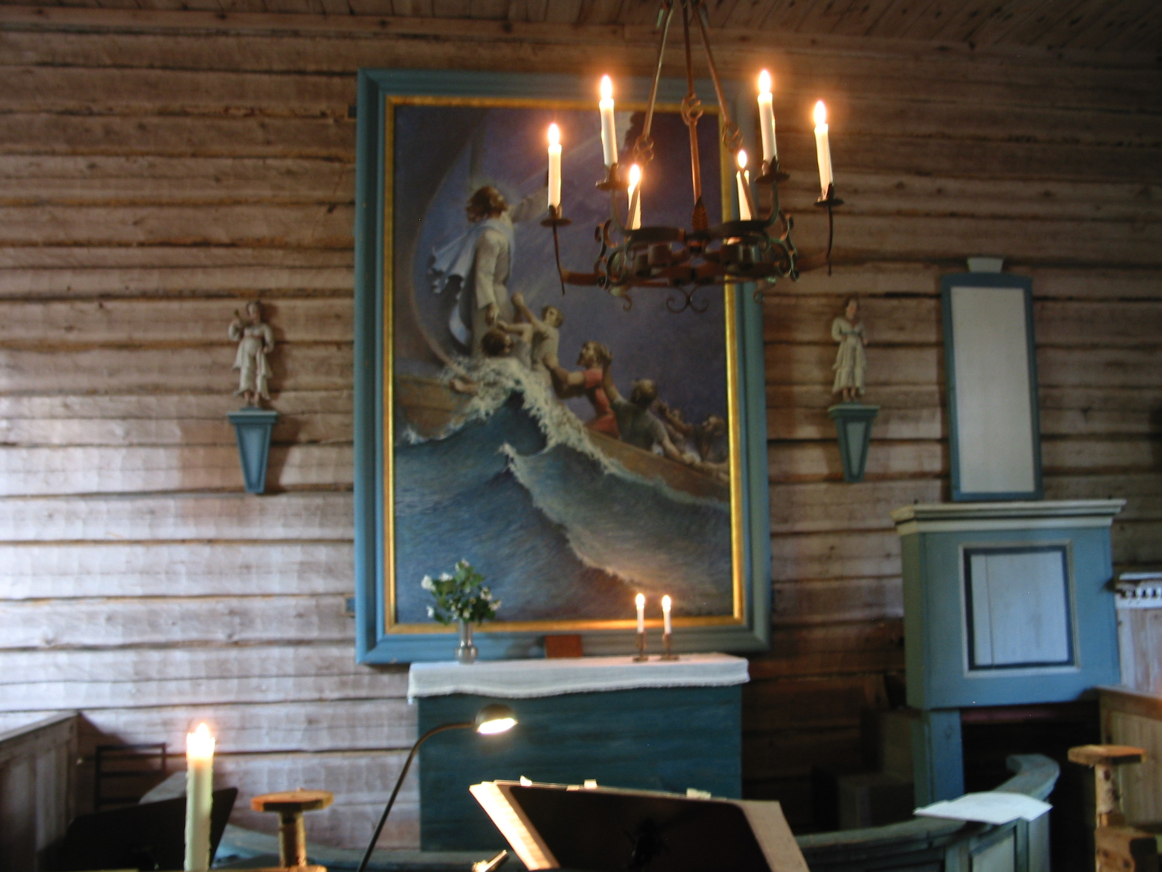 Altarpiece, Kärkölä Church, in Kärkölä, Nummi-Pusula, Finland